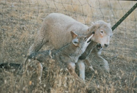 coyotes killing lamb